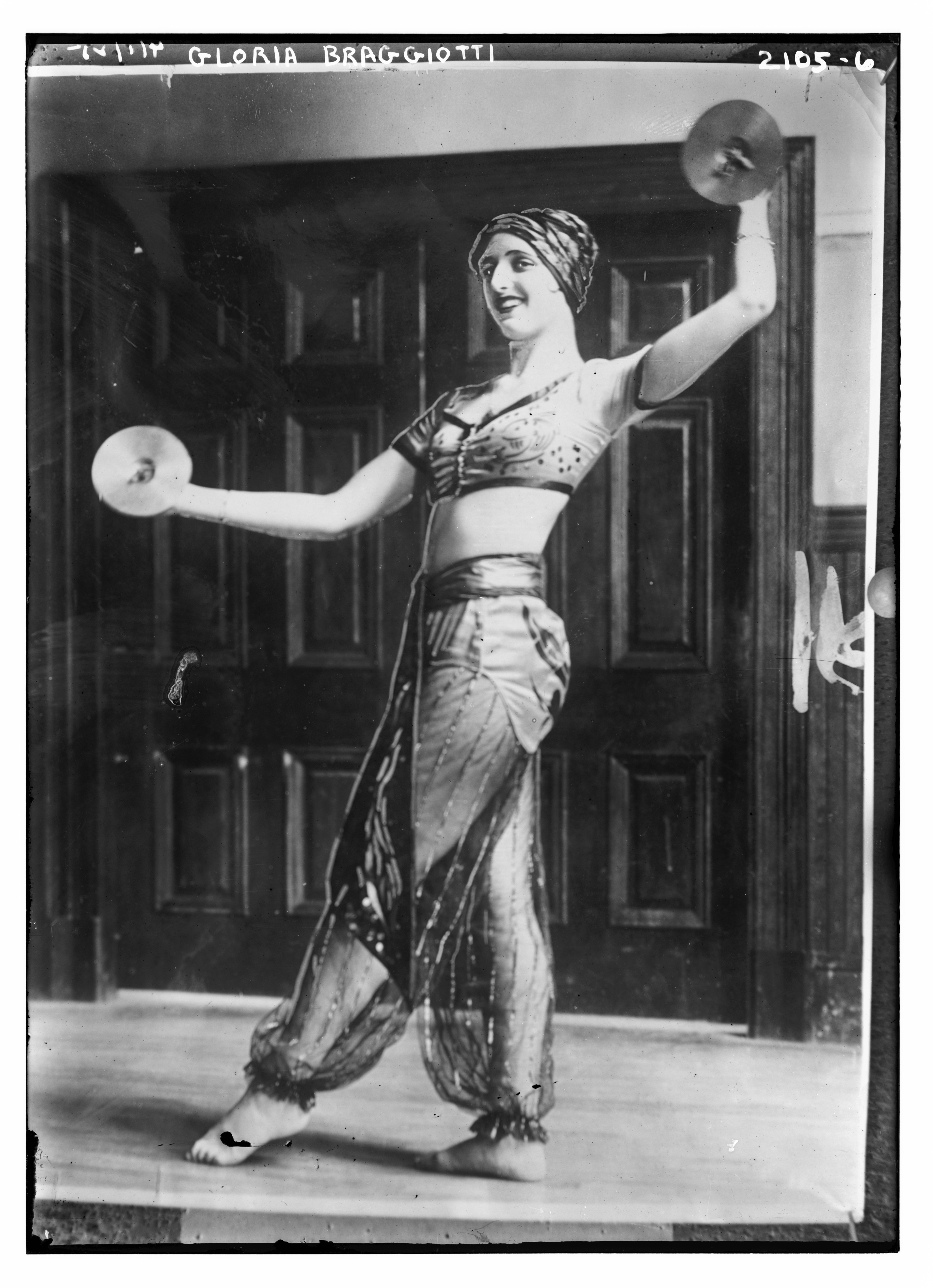 Title: Gloria Braggiotti Abstract/medium: 1 negative : glass ; 5 x 7 in. or smaller.